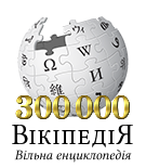 The Ukrainian Wikipedia 300K commemorative logo